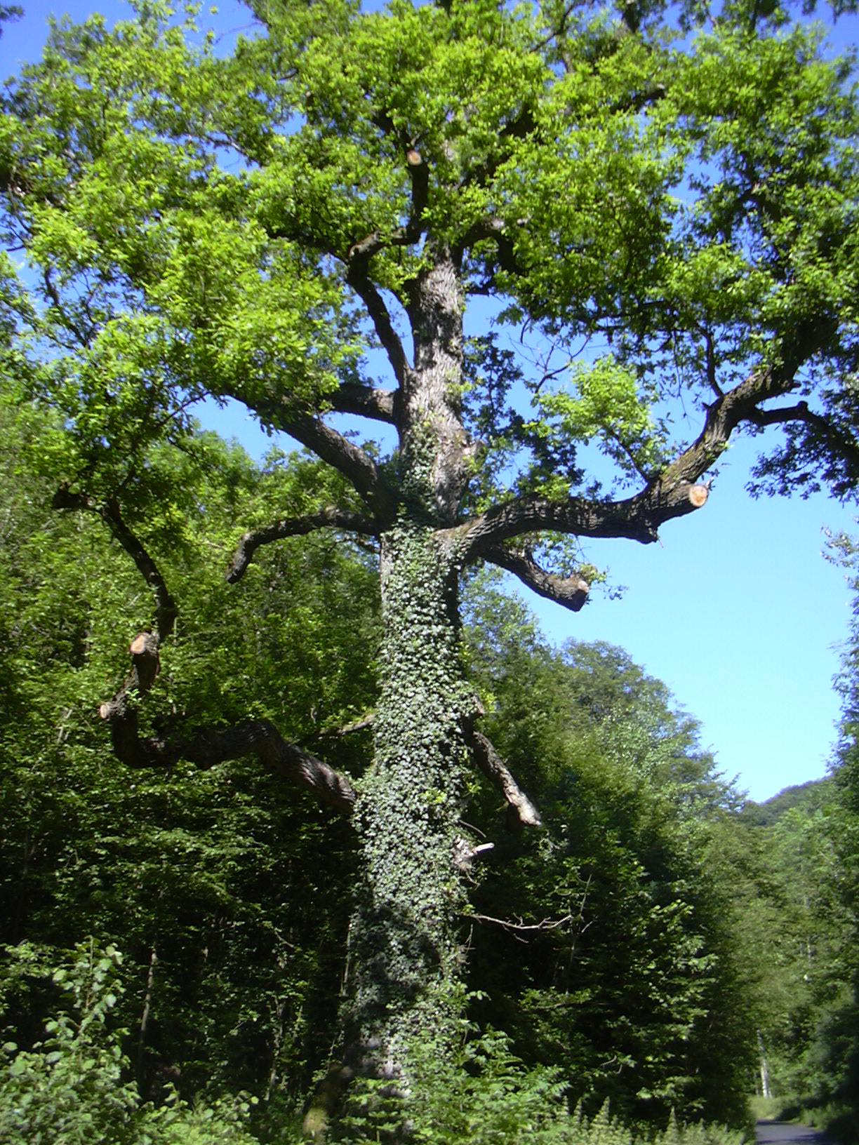 Old oak tree, Fockenbach Valley, Westerwald/Germany